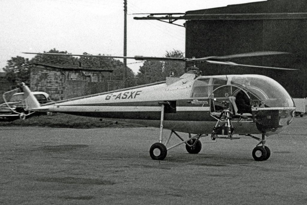 Brantly 305 G-ASXF at Oxford Airport, Kidlington, Oxfordshire